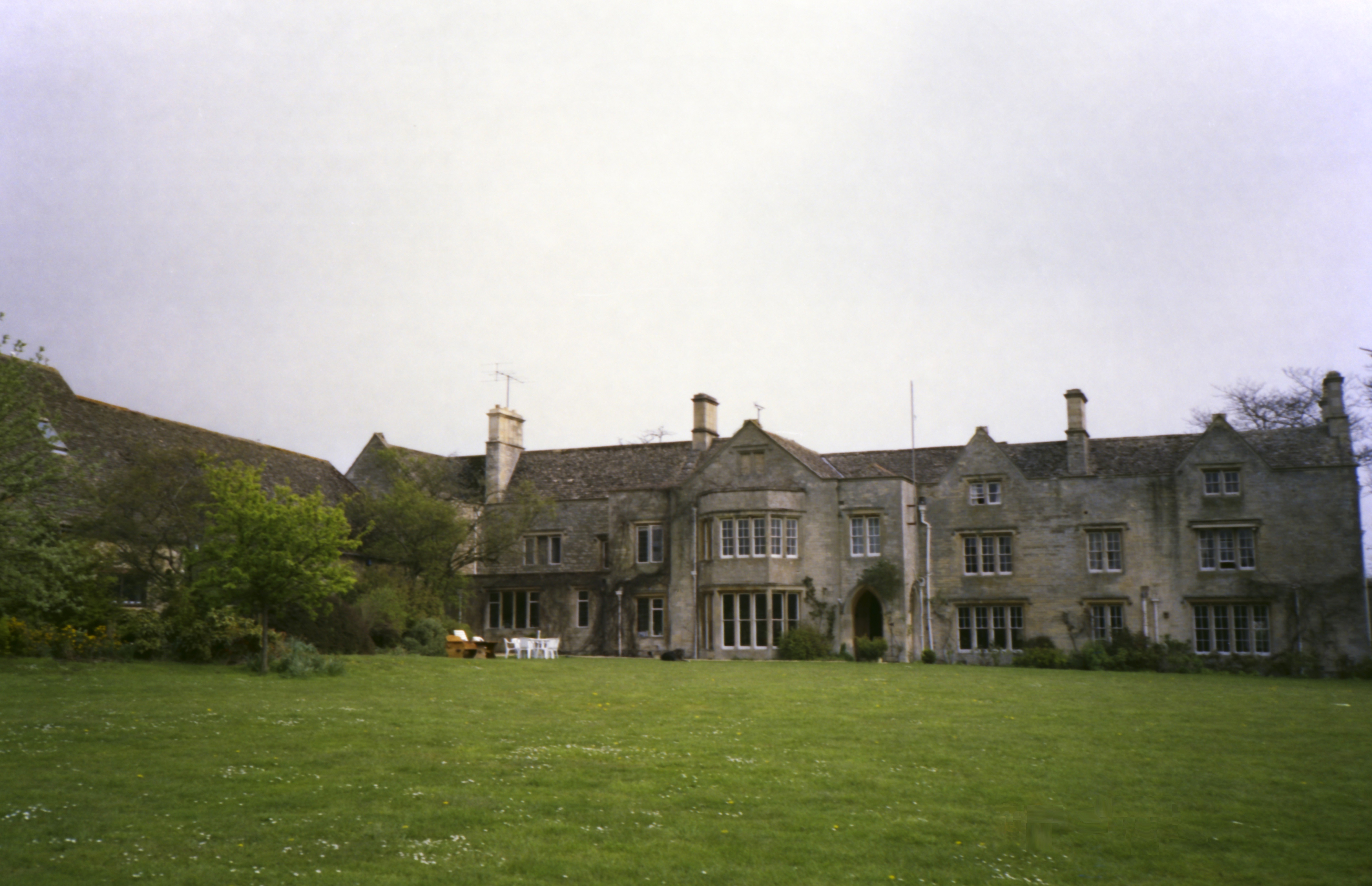 The Manor Studios